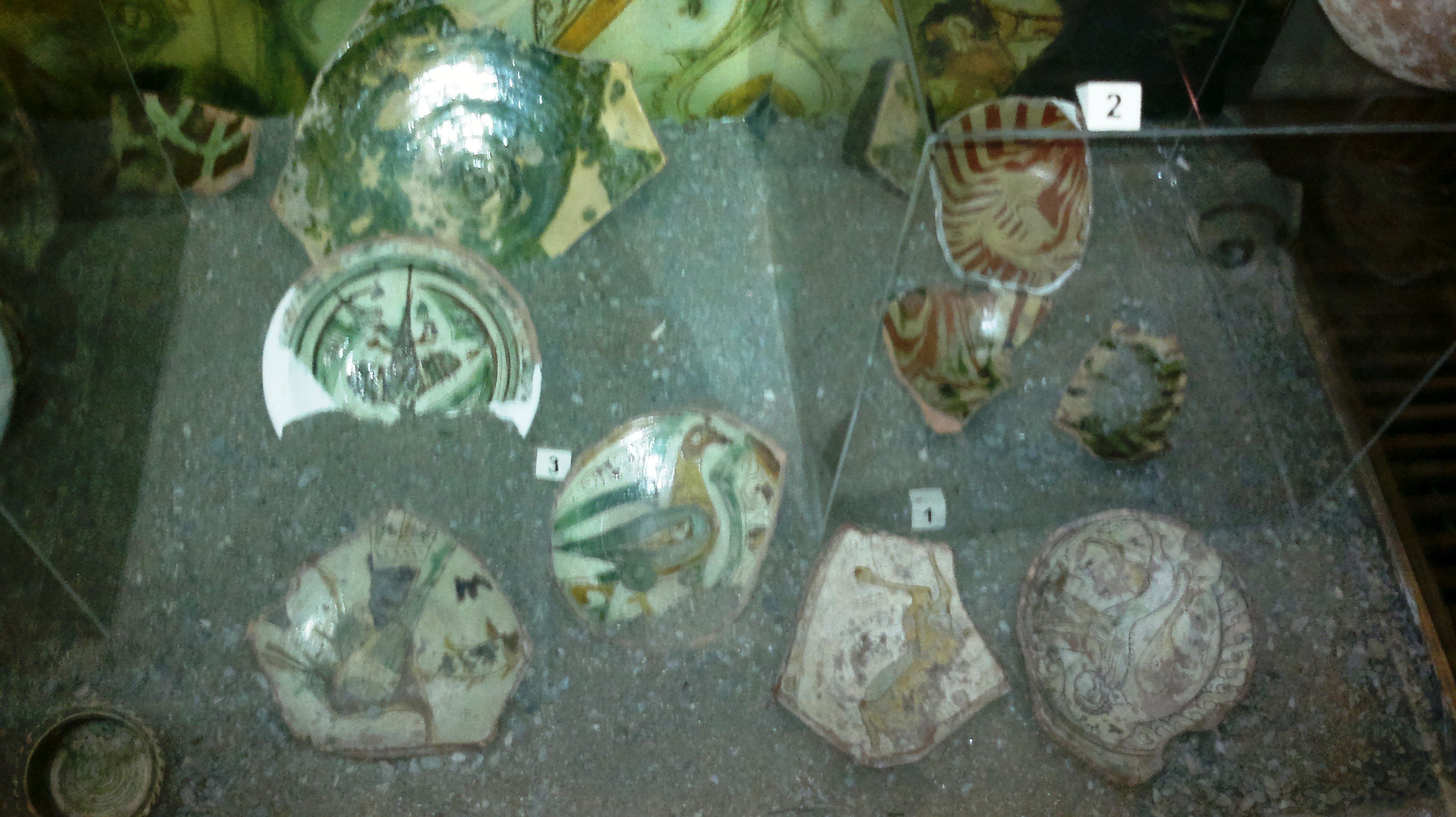 Findings from Bandovan. Middle ages.